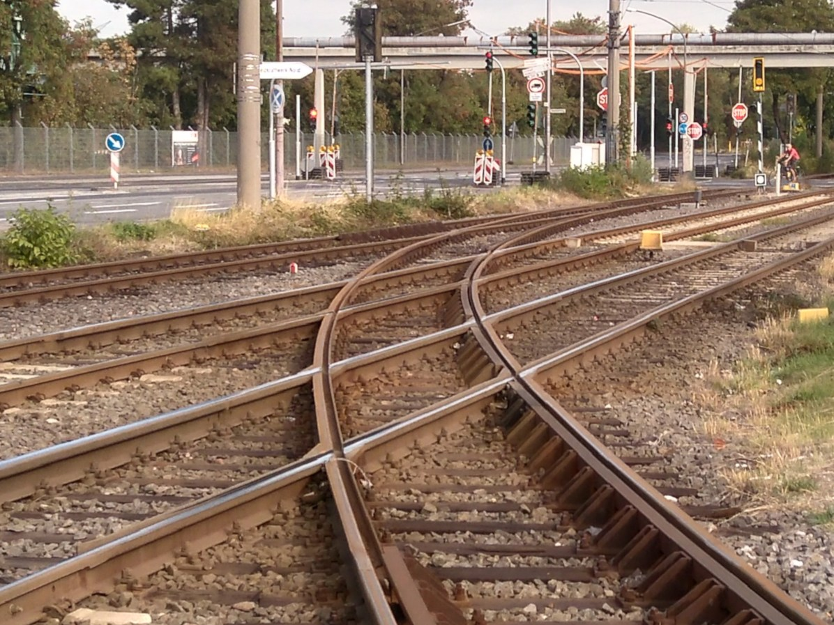 In Köln-Niehl the railway siding of the Ford plant crosses the KVB tramway via curved diamond crossings.